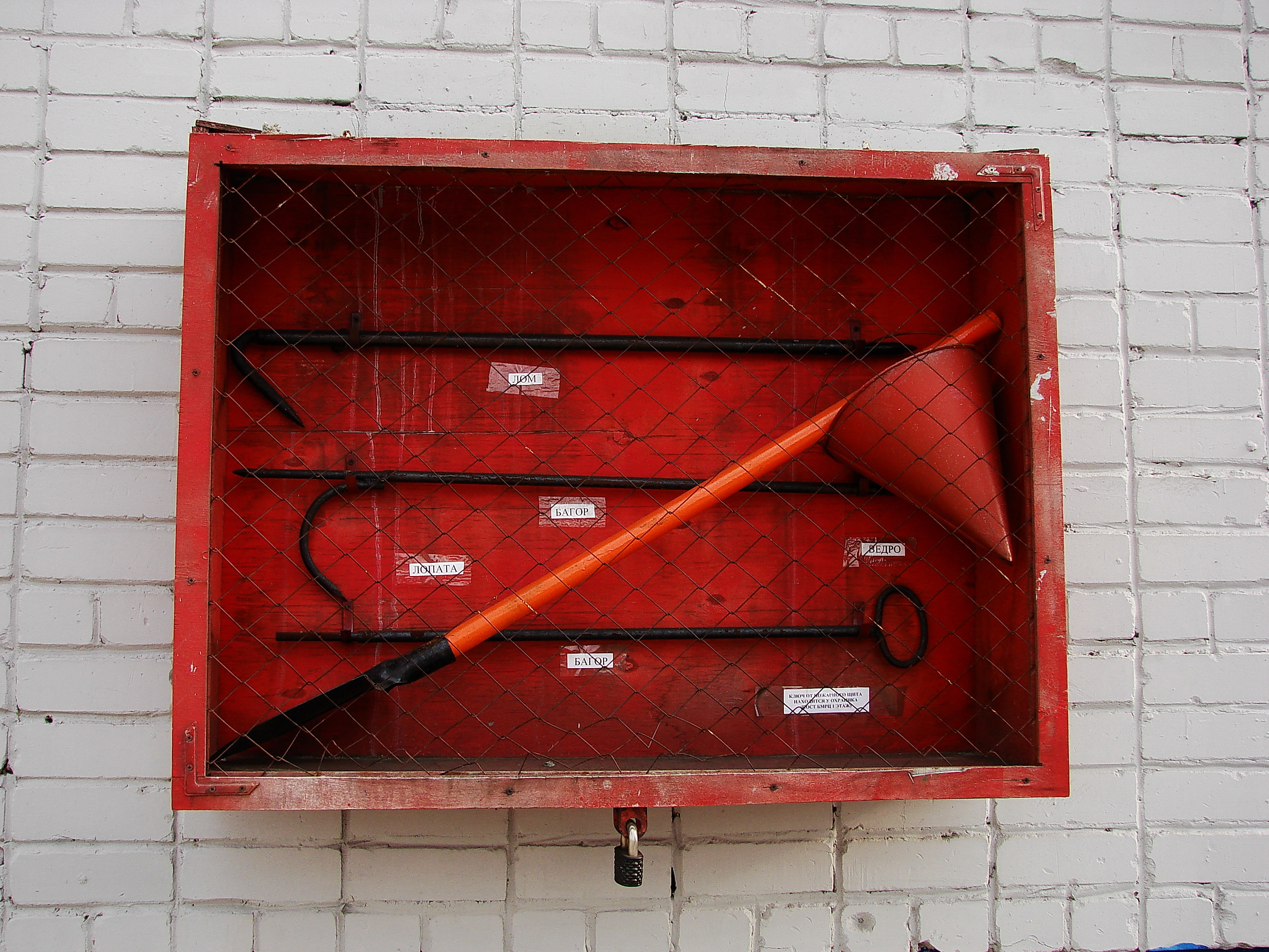 A cabinet with firefighting equipment (a bucket, a spade, a crowbar, and two pike poles), Russia